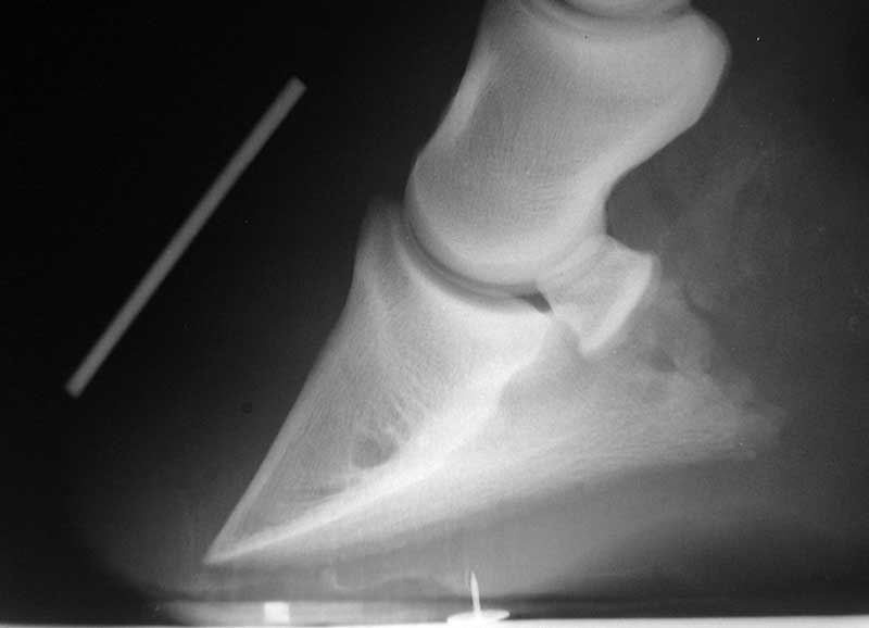 Typical x-ray or radiograph of laminitic foot